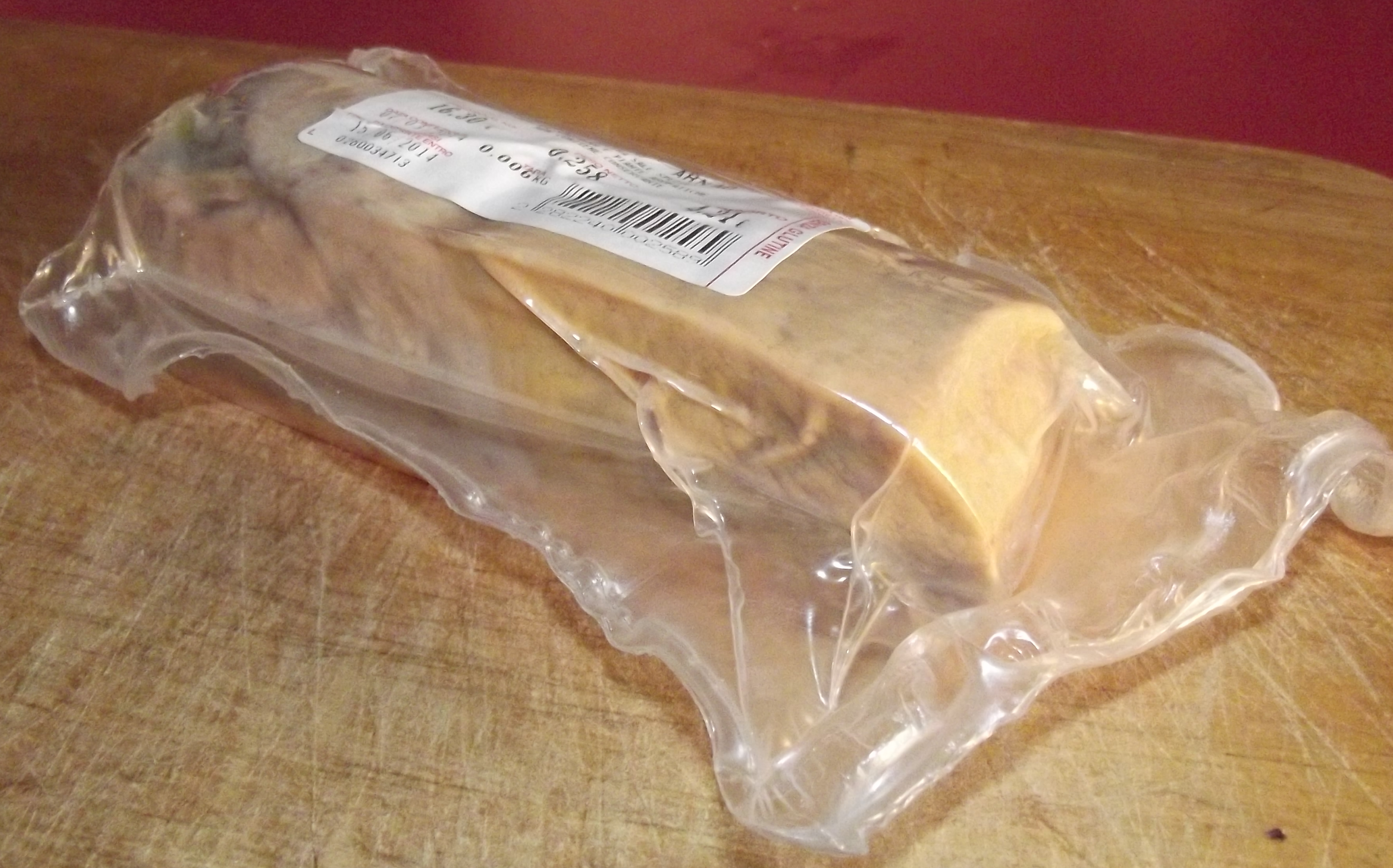 teteun, a traditional cow udder based cold cut from Aosta Valley (Italy)